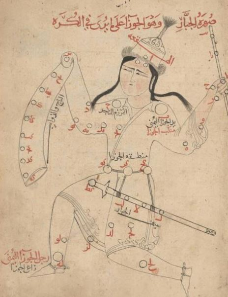 The constellation Orion in a 12th century copy of Kitāb suwar al-kawākib al-ṯābita. The left leg is marked as the star Rigel, rijl al-jauza al-yusra (the left leg of Orion)